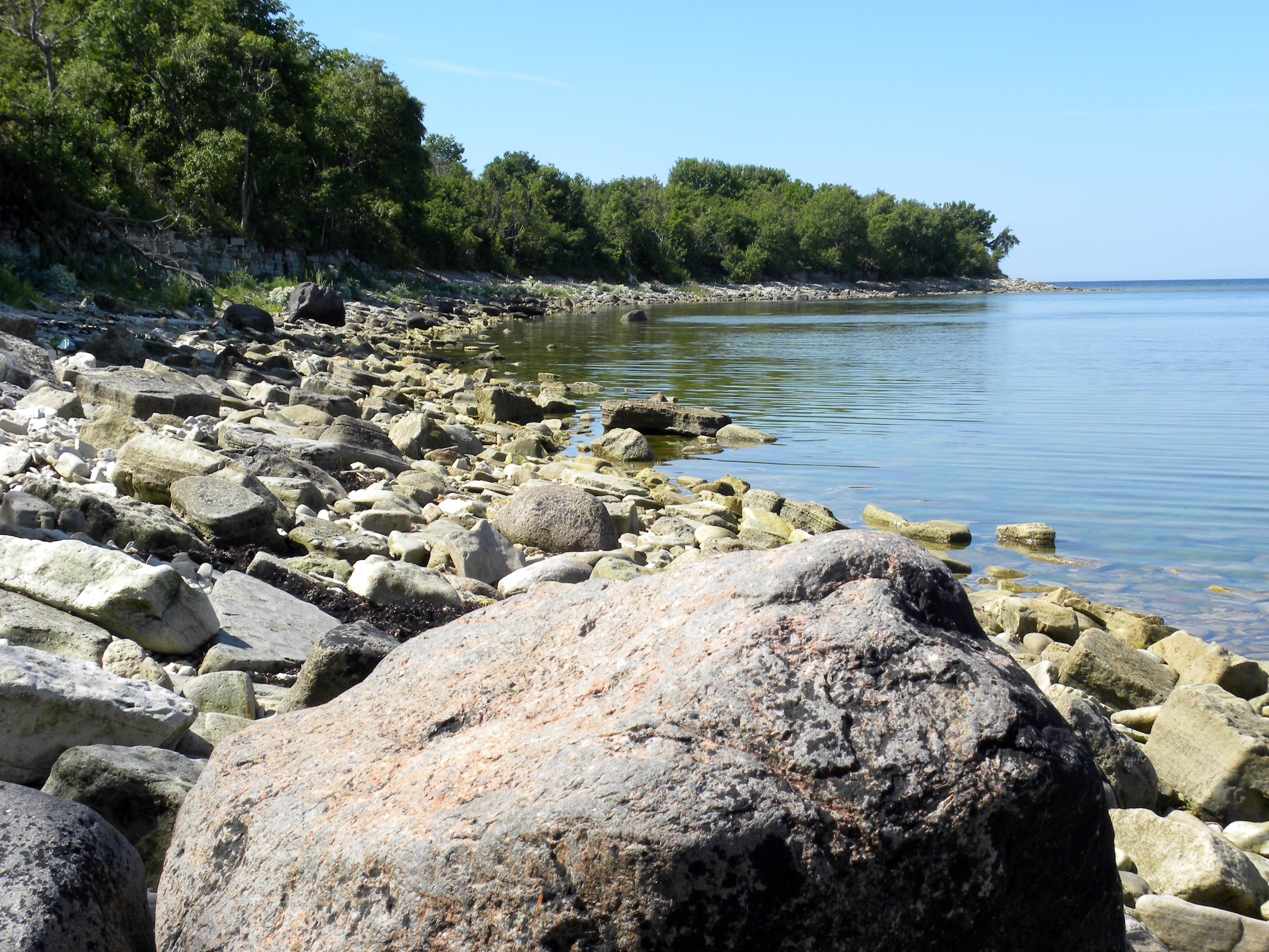 Soeginina Cliff coastline in western Saaremaa, Estonia.